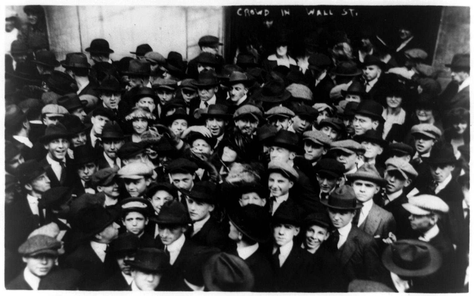 A crowd of curb brokers in Wall Street, New York City.